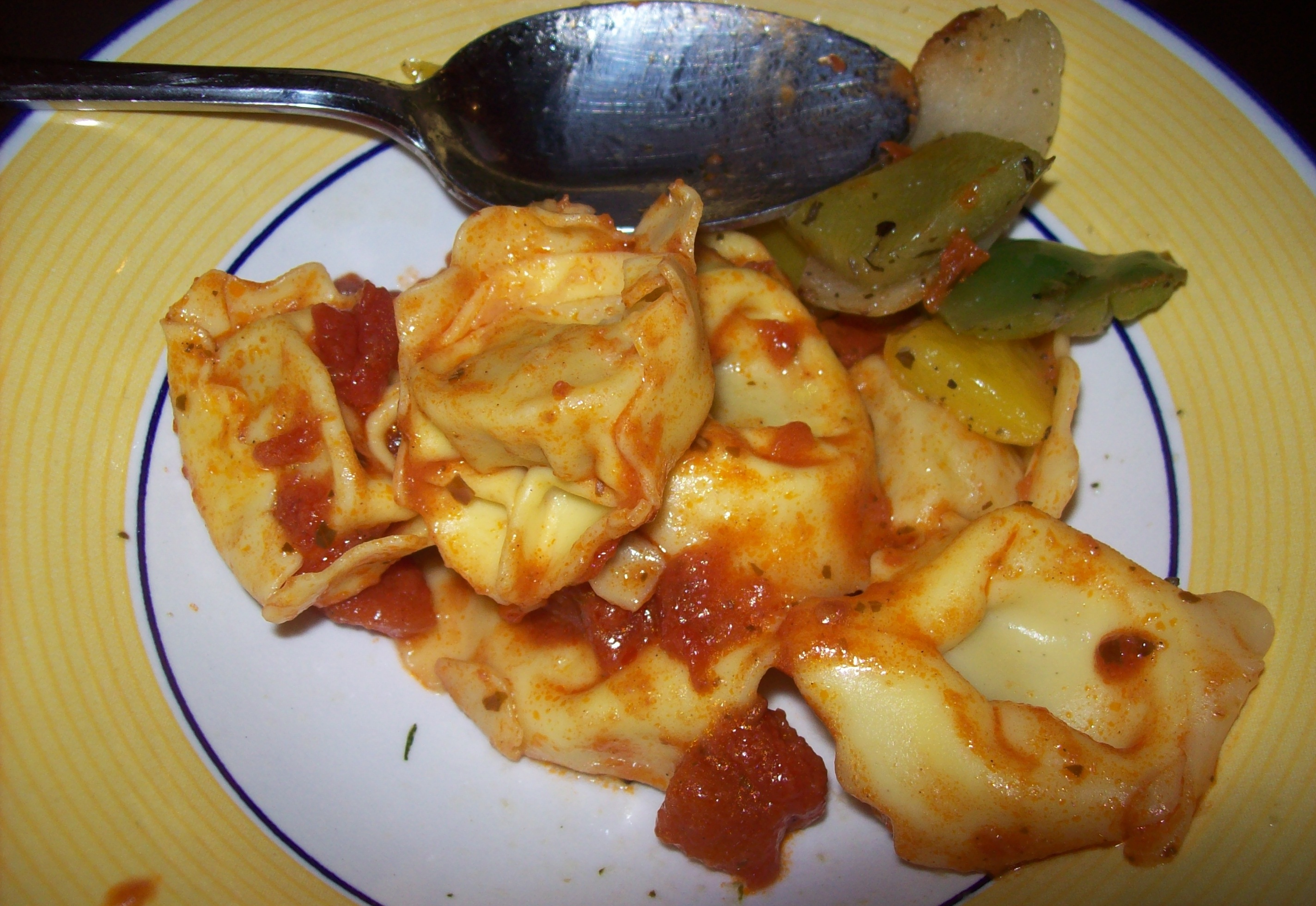 Some tortelloni pasta with vegetables.